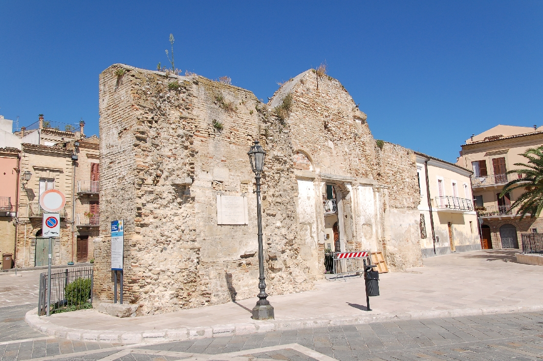 Vasto 2011